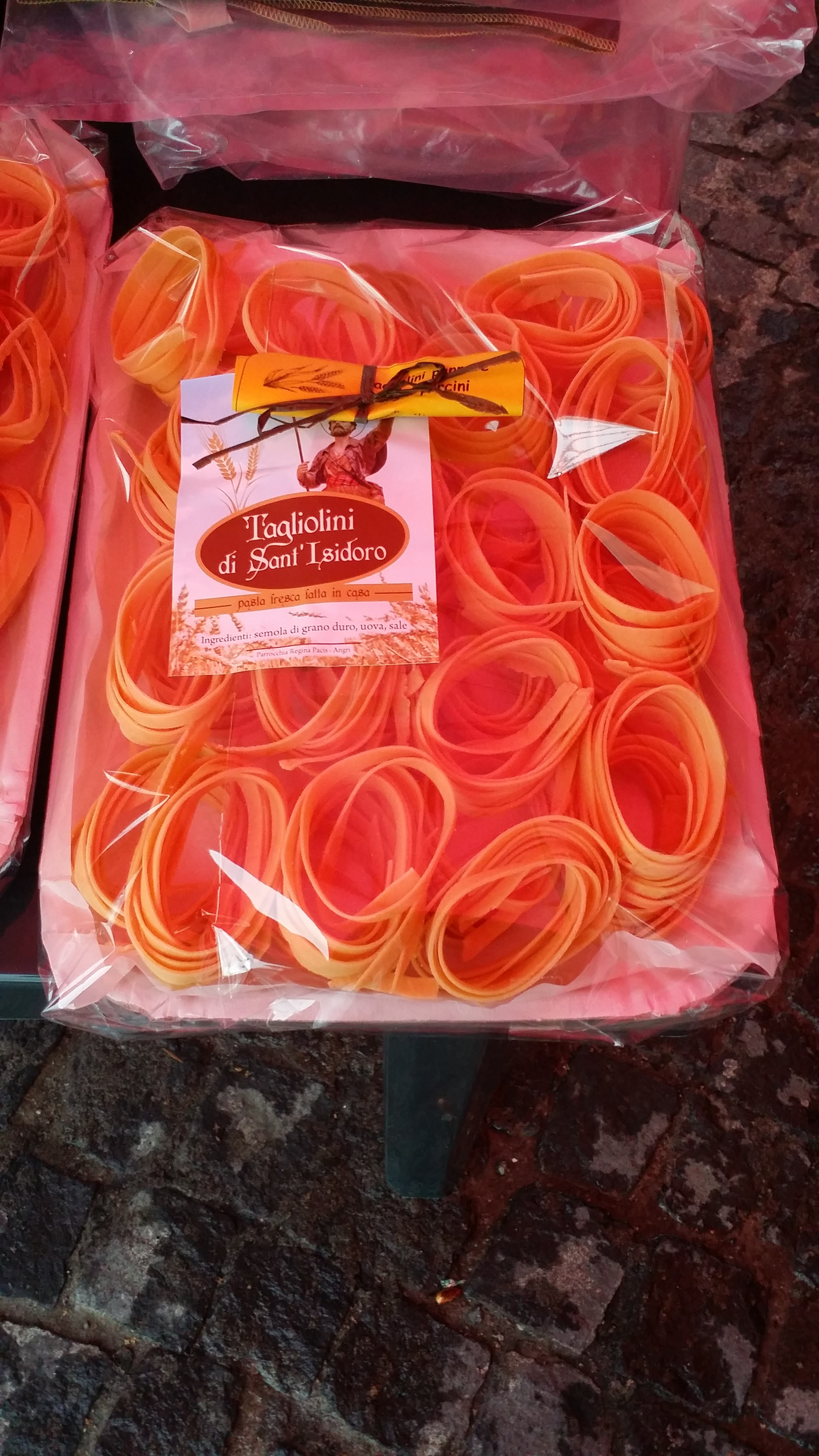 Pack of tagliolini with prayer to Sant’Isidoro the farmer, prepared during his anniversary by the people of the neighborhood of the church of the Madonna della Pace-Angri (Sa).